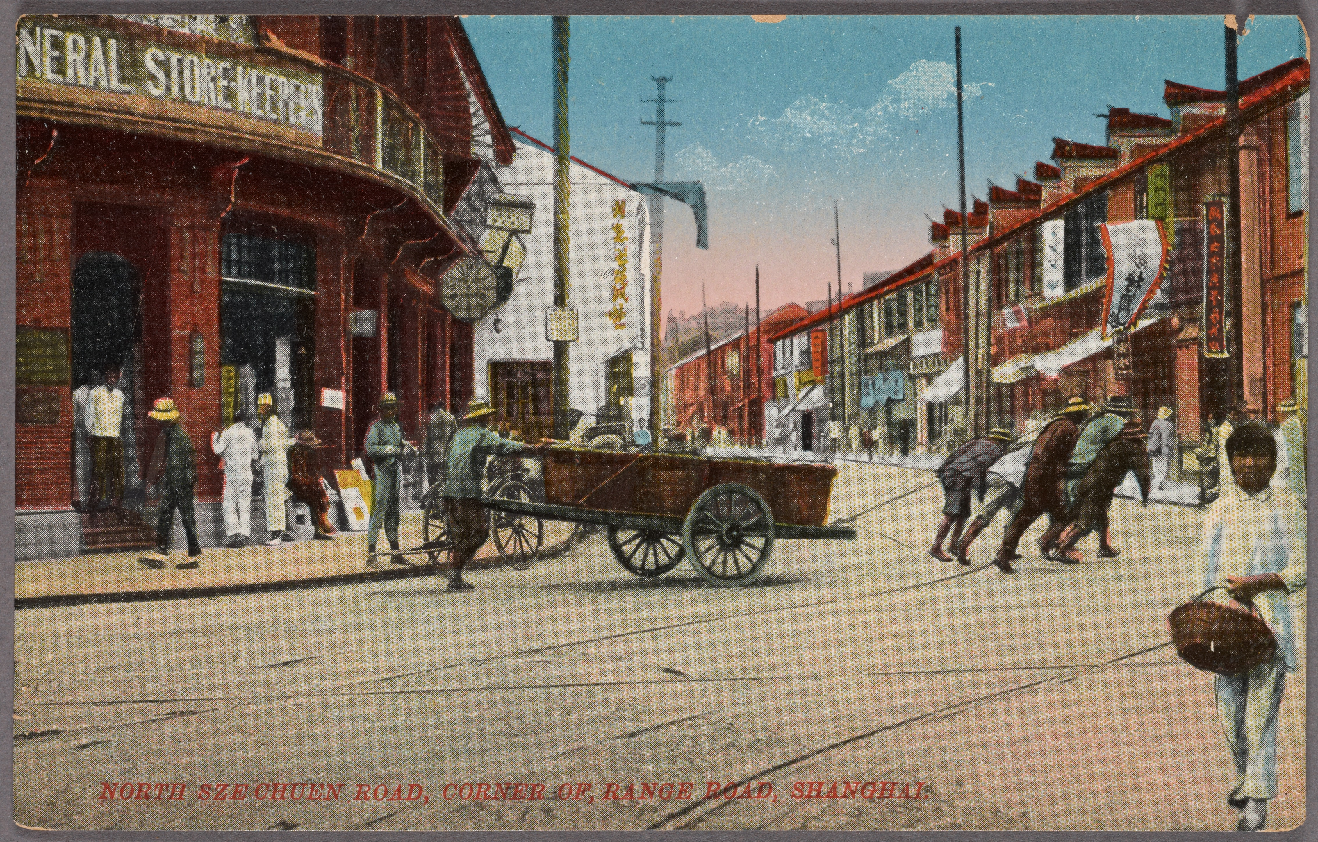 North Sze Chuen Road, corner of Range Road, Shanghai.